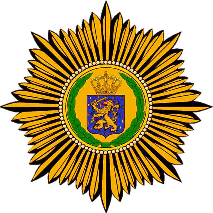 Royal Netherlands East Indies Army Logo weapon shield coat of arms KNIL